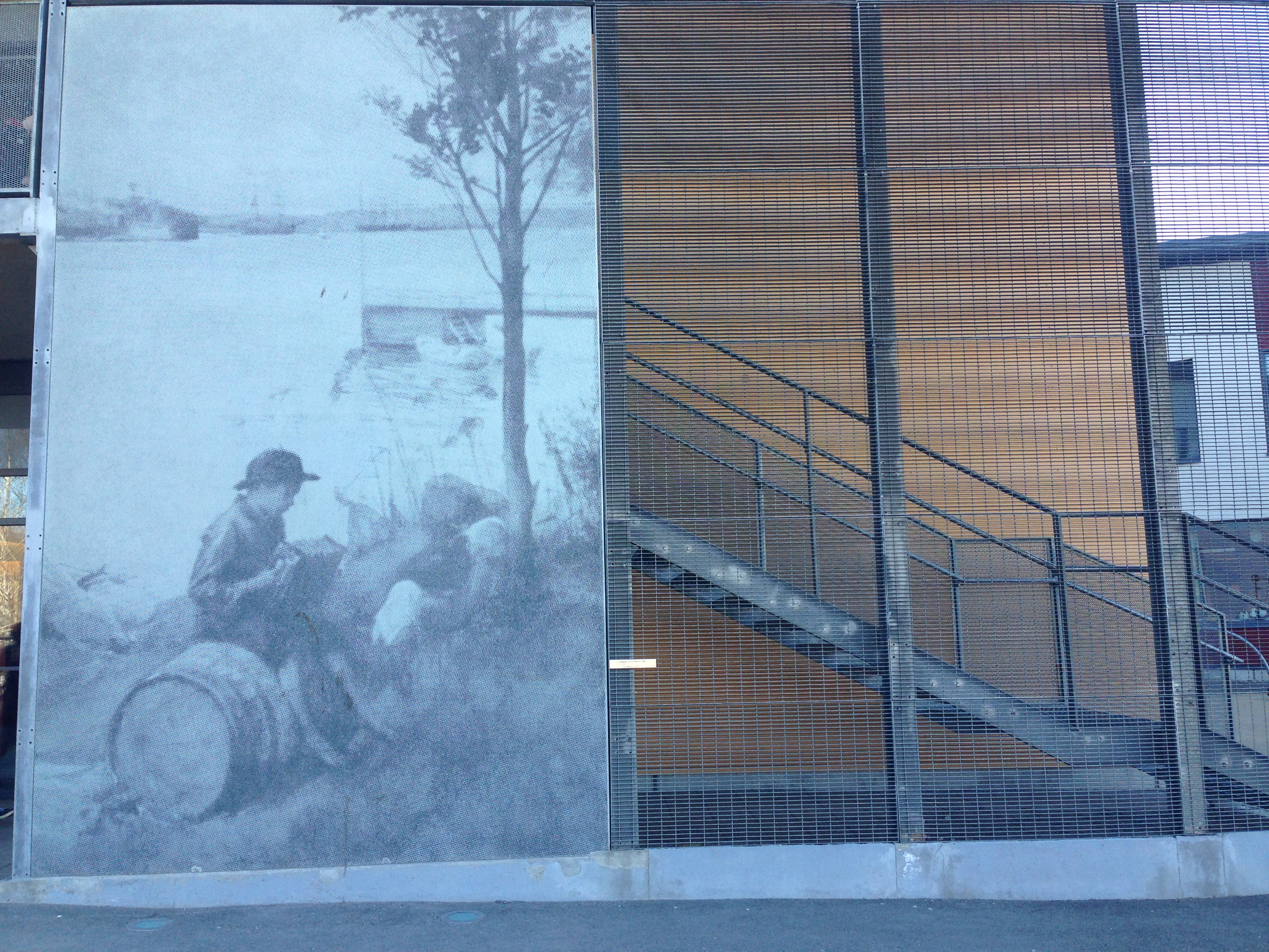 Precast concrete slab made with Graphic Concrete method. The artwork is based on Serenadi rantapenkereellä ("Serenade on a riverbank"), aquarelle by Albert Edelfelt (1887). - Albert Edelfelt School, Porvoo, Finland.